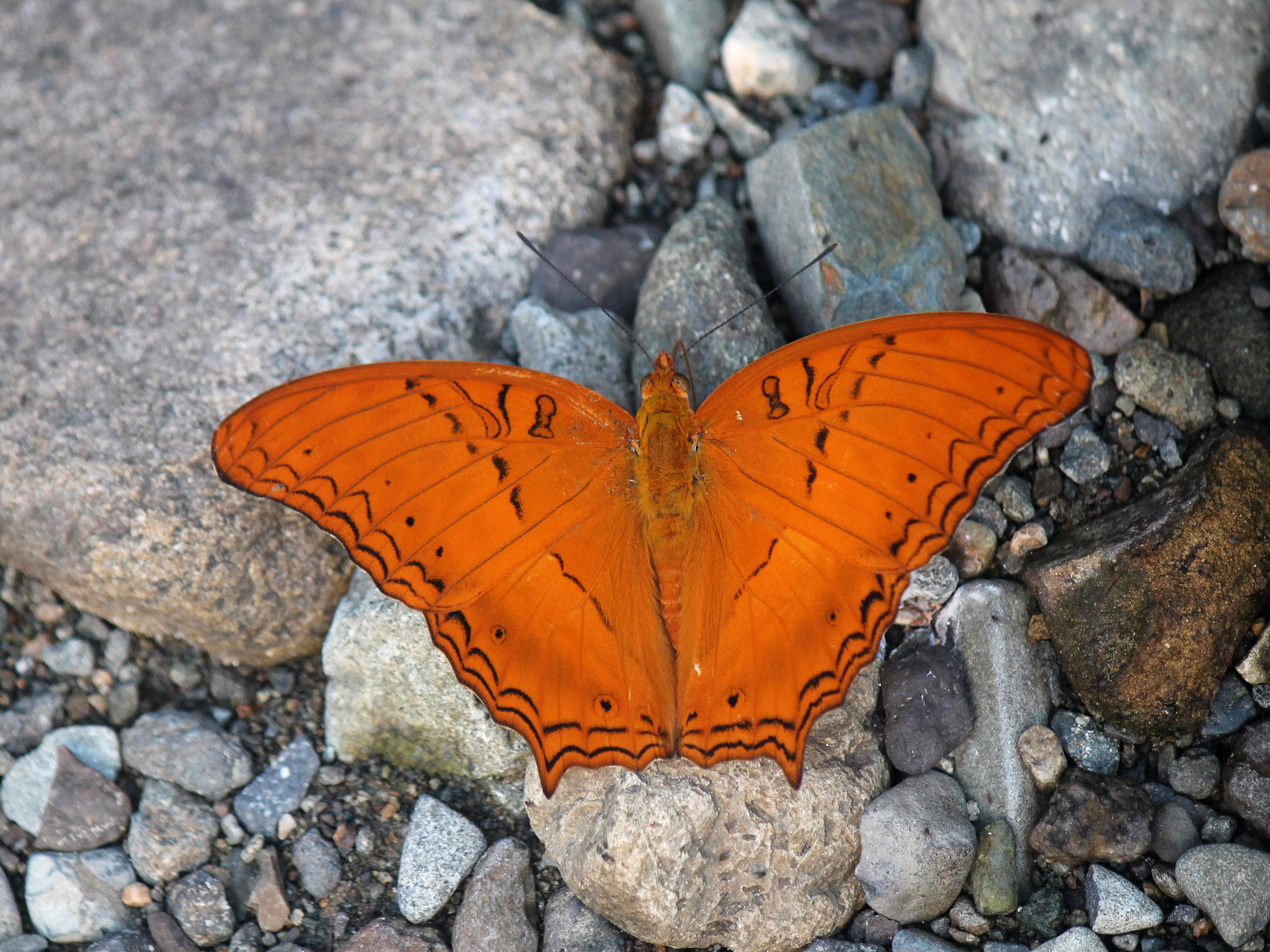 Upperside of Vindula dejone at Manado,North Sulawesi